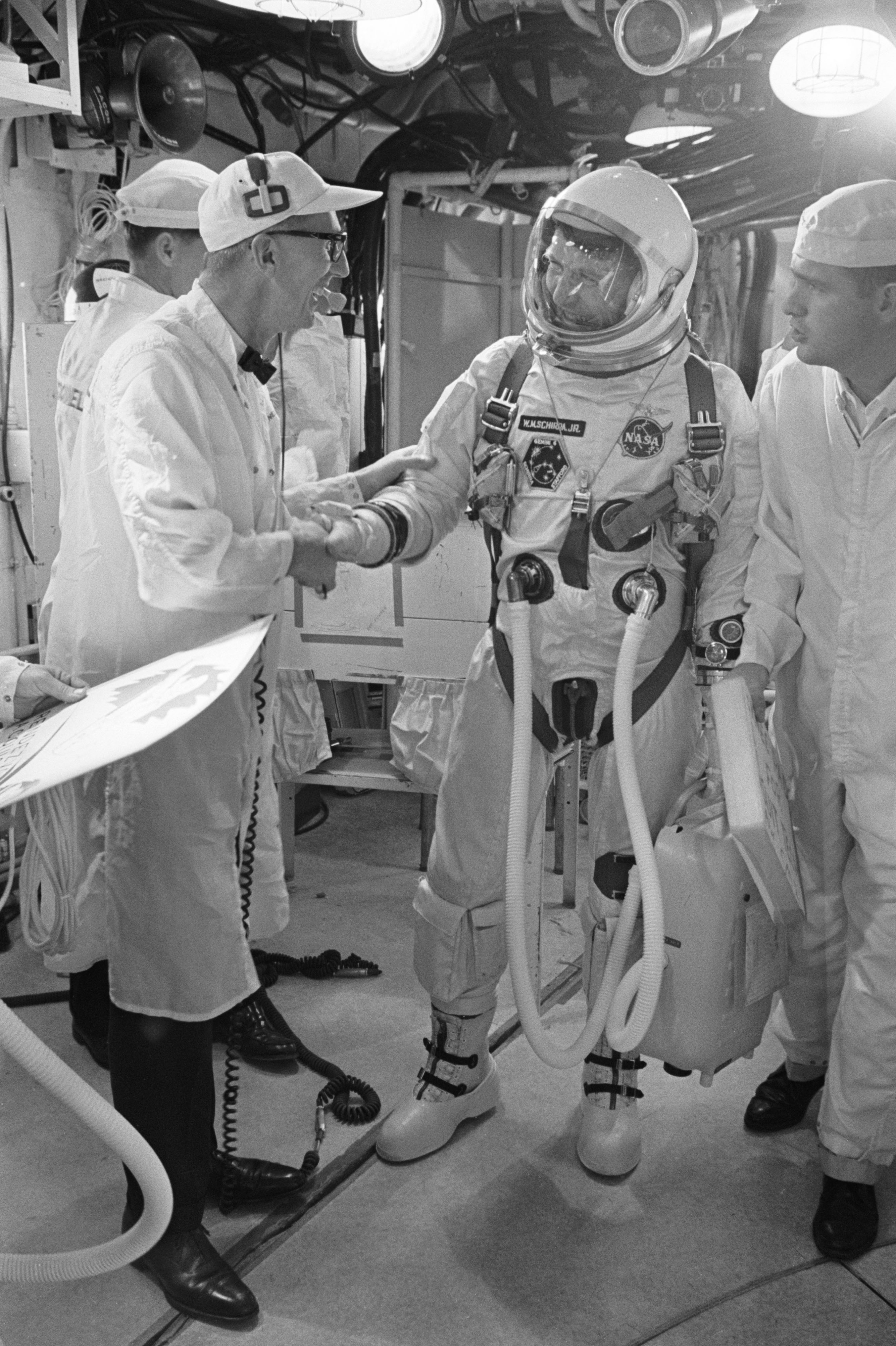 S65-61912 (12 Dec. 1965) --- Astronaut Walter M. Schirra Jr., command pilot, accepts the best wishes of G.F. Wendt, McDonnell Aircraft Corporation pad leader, as he arrives in the white room atop Pad 19. Moments later, Schirra and astronaut Thomas P. Stafford, pilot, entered the spacecraft for their planned two-day mission. At right is NASA suit technician Al Rochford.